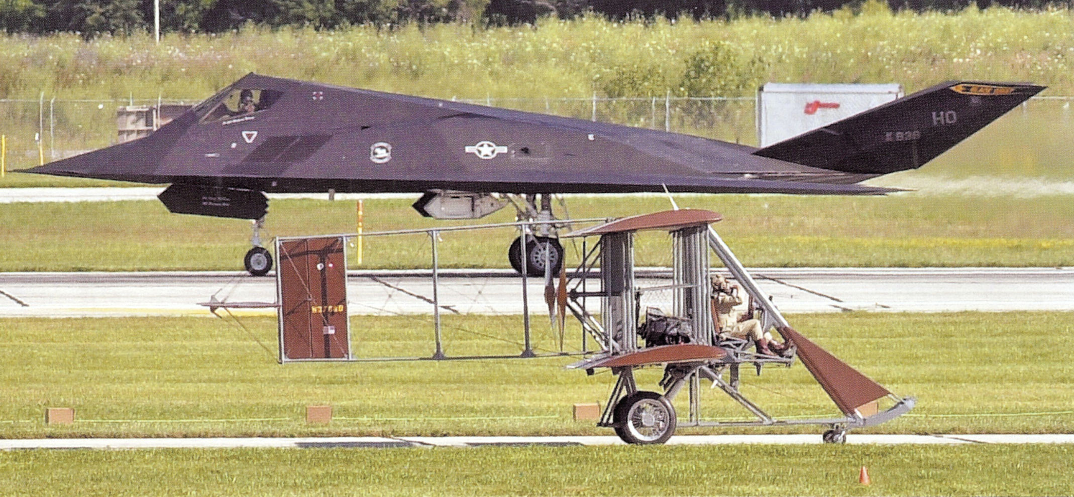 8th Fighter Squadron F-117A 86-0838 taxxing by a Wright "B" Flyer during the US Air and Trade Show at Dayton International Airport, 17 July 2003 (U.S. Navy photo by PM2 Damon J. Moritz)